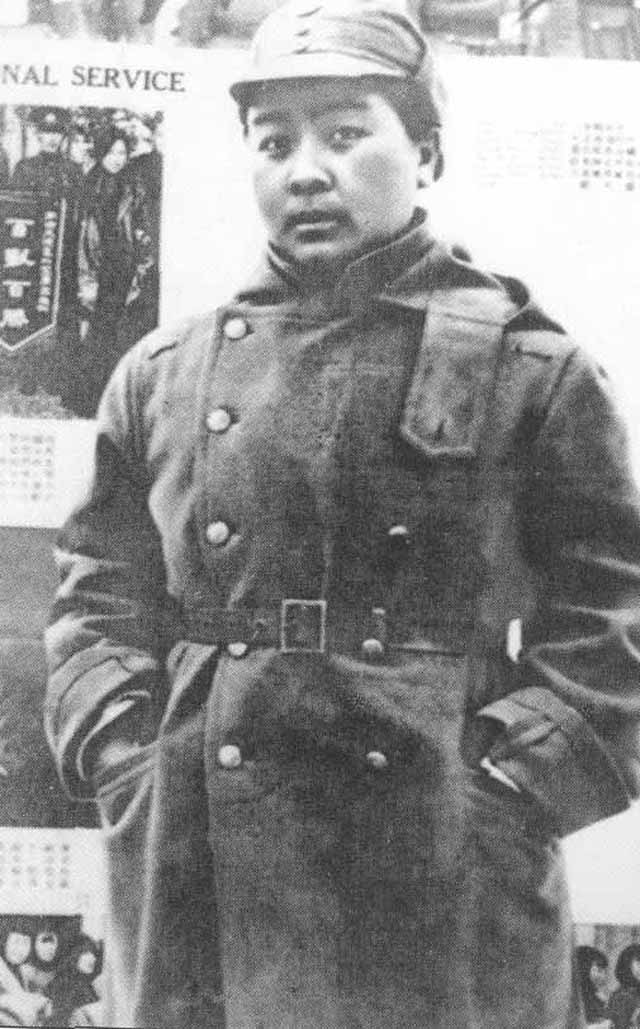 Dīng Líng (丁玲) was the pseudonym of Jiǎng Bīngzhī (蒋冰之), also known as Bīn Zhǐ (彬芷) (October 12, 1904 - March 4, 1986), a Chinese woman author from Linli (临澧) in Hunan province. [1] She was awarded Soviet Union's Stalin second prize for Literature in 1951.